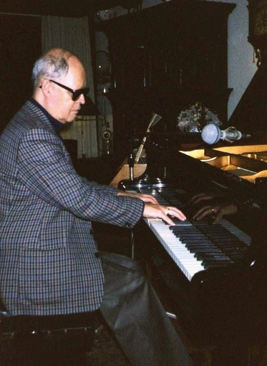 Jules de Corte